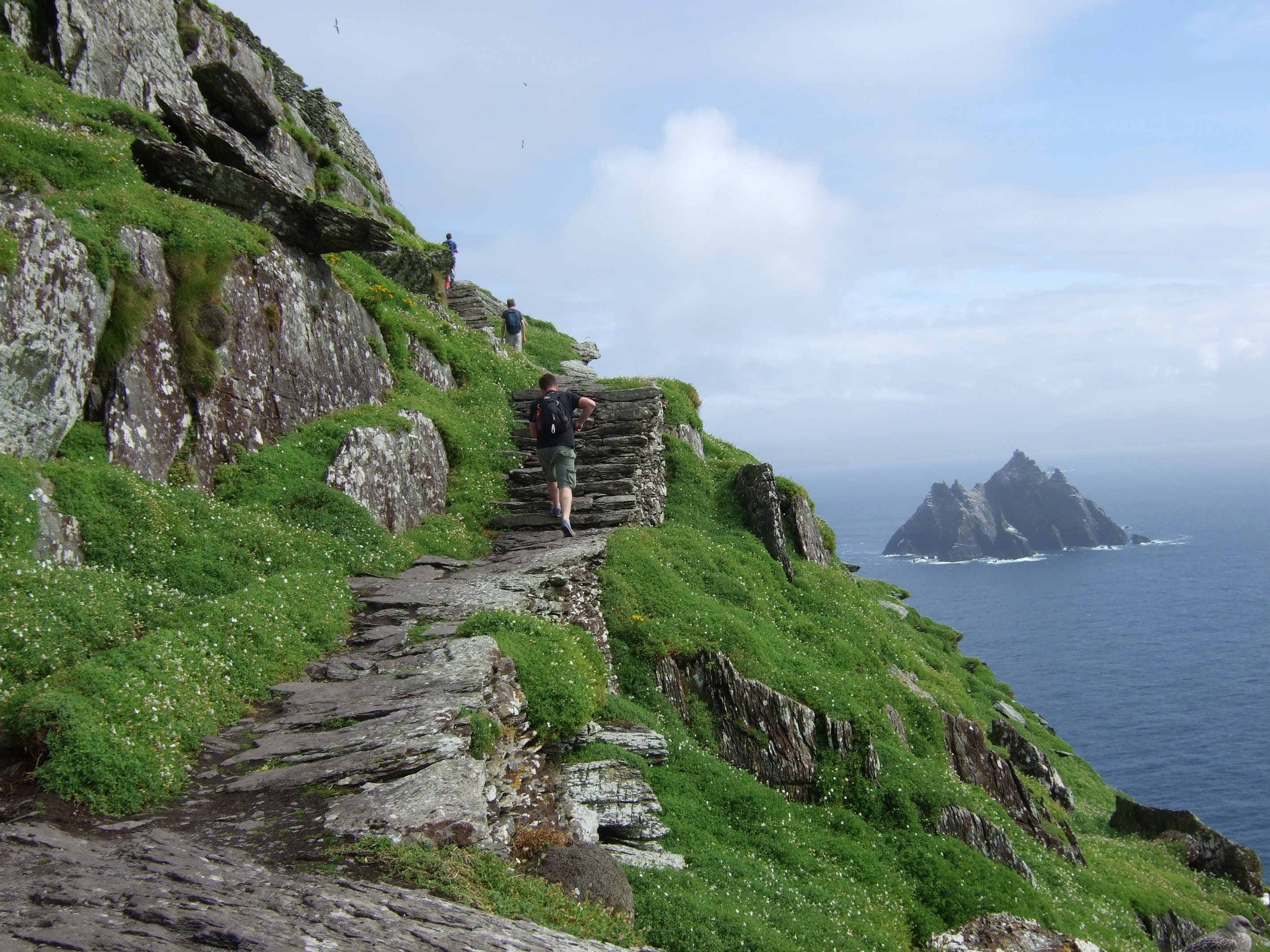 "Stairs" to the monastery with a view of Little Skellig